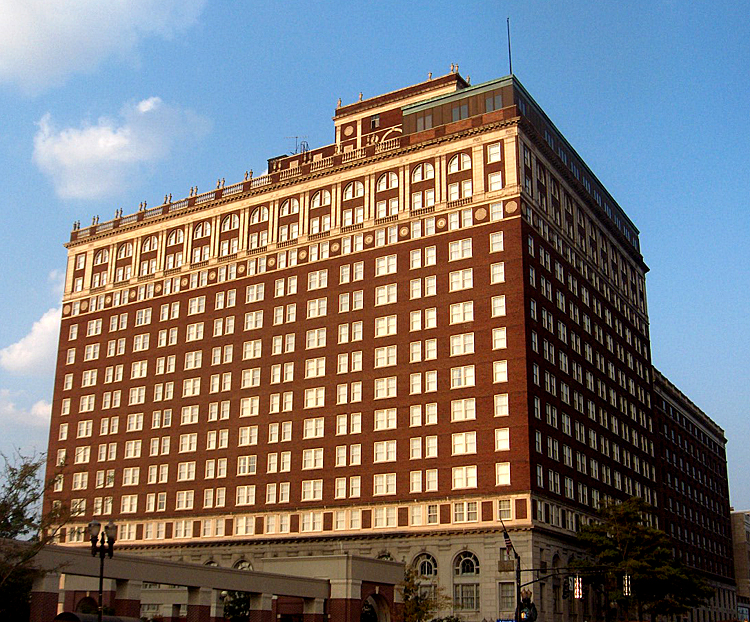 The Brown Hotel at the corner of Fourth Street and Broadway in downtown Louisville. Photo taken August 12 2005 by Derek Cashman.